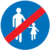 Luxembourg road sign diagram